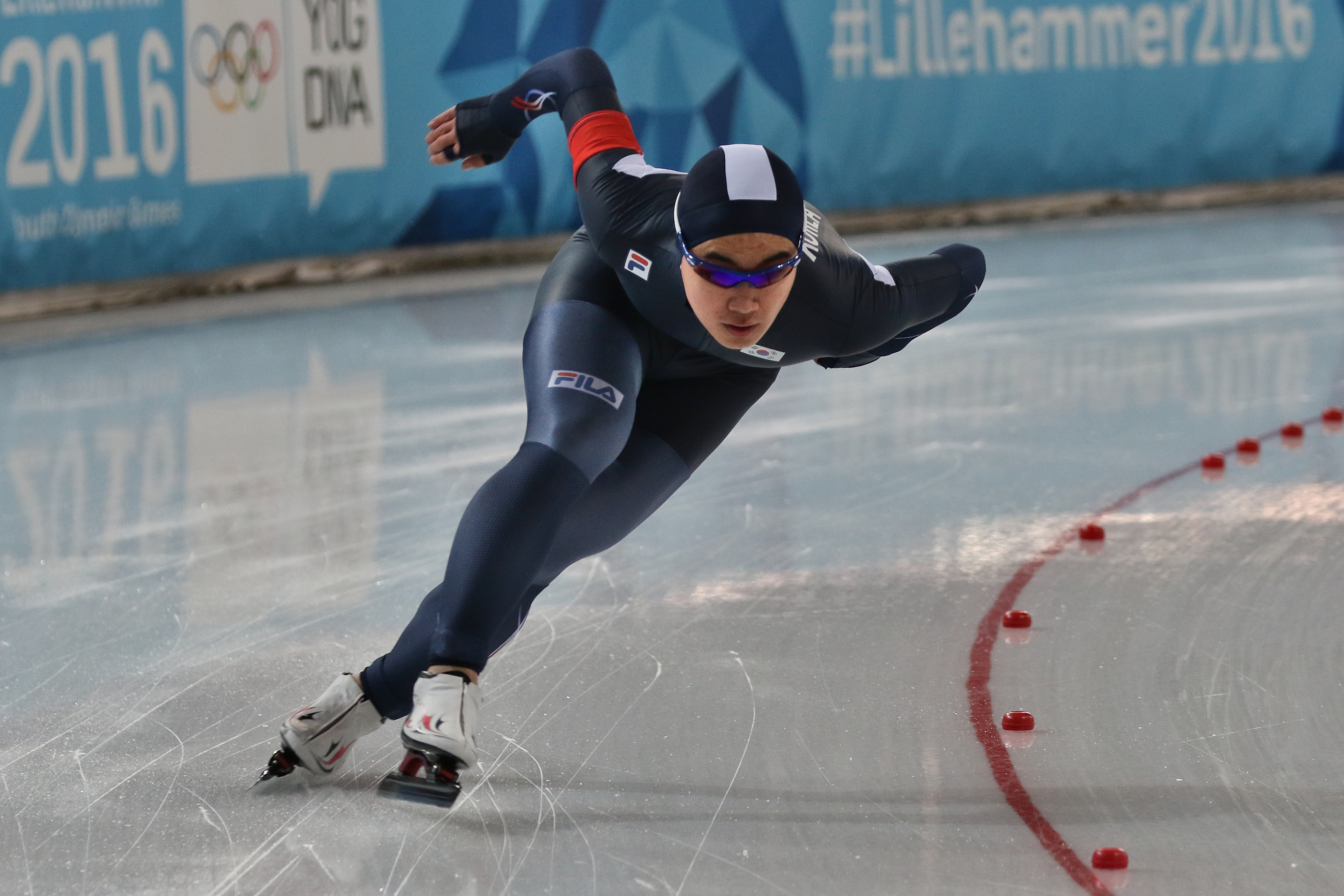 Lillehammer 2016 - Speed skating Men's 500m race 2 - Min Seok Kim